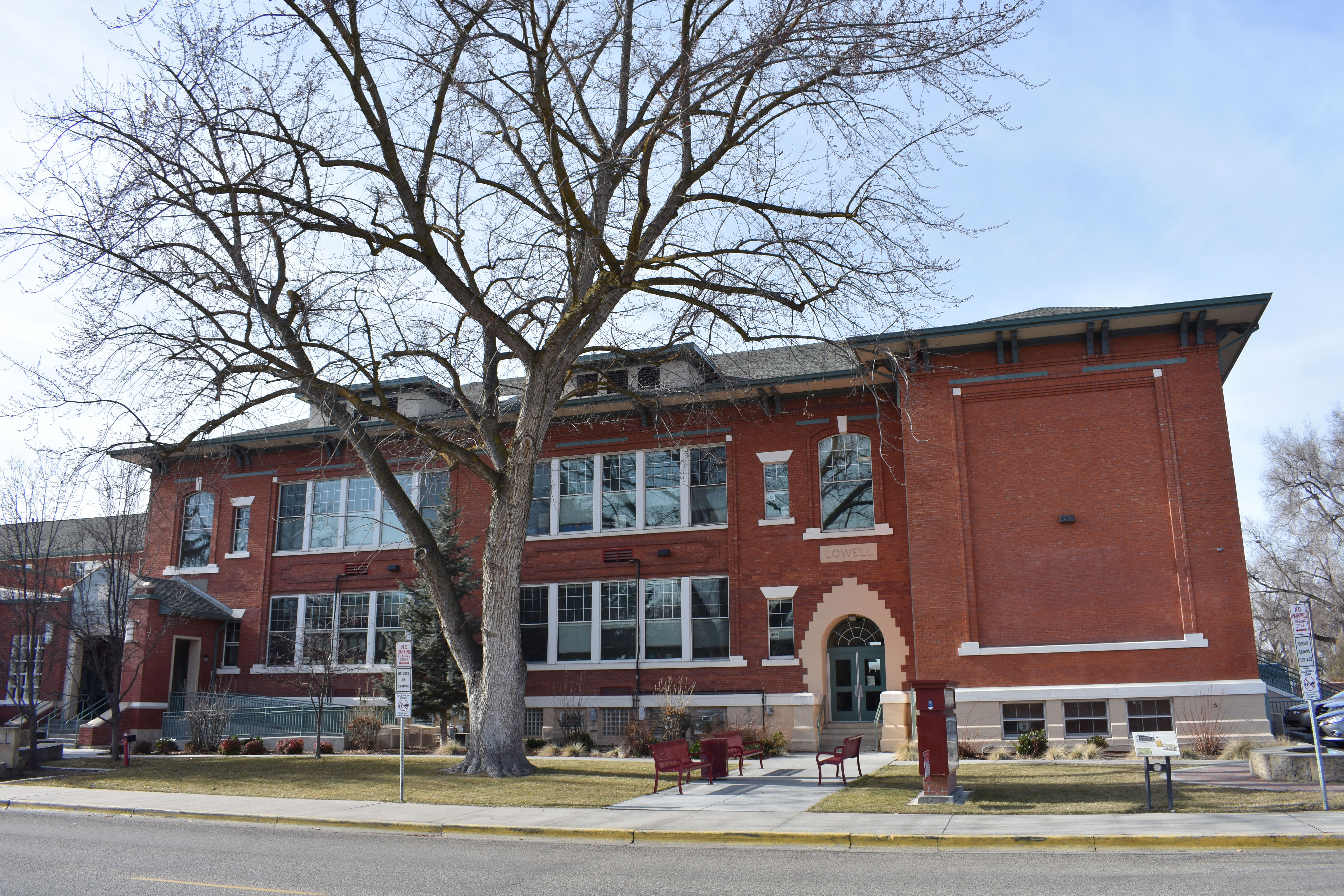 Lowell School (1913) in Boise, Idaho, is listed on the National Register of Historic Places.